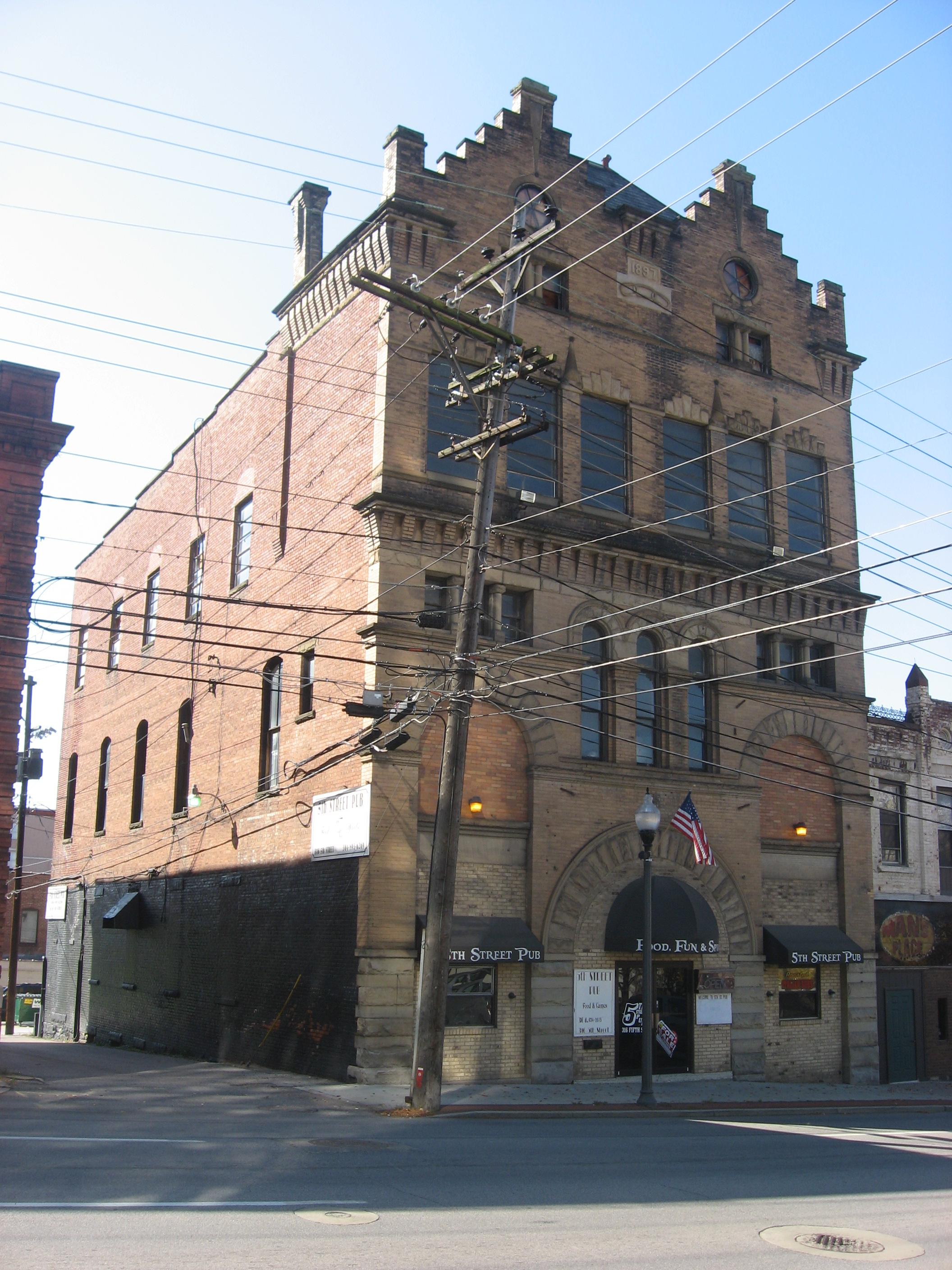 Front and southern side of the Sharon Lodge No. 28 IOOF (now the Fifth Street Pub), located at 316 Fifth Street (West Virginia Route 14) in Parkersburg, West Virginia, United States. Built in 1897, it is listed on the National Register of Historic Places.